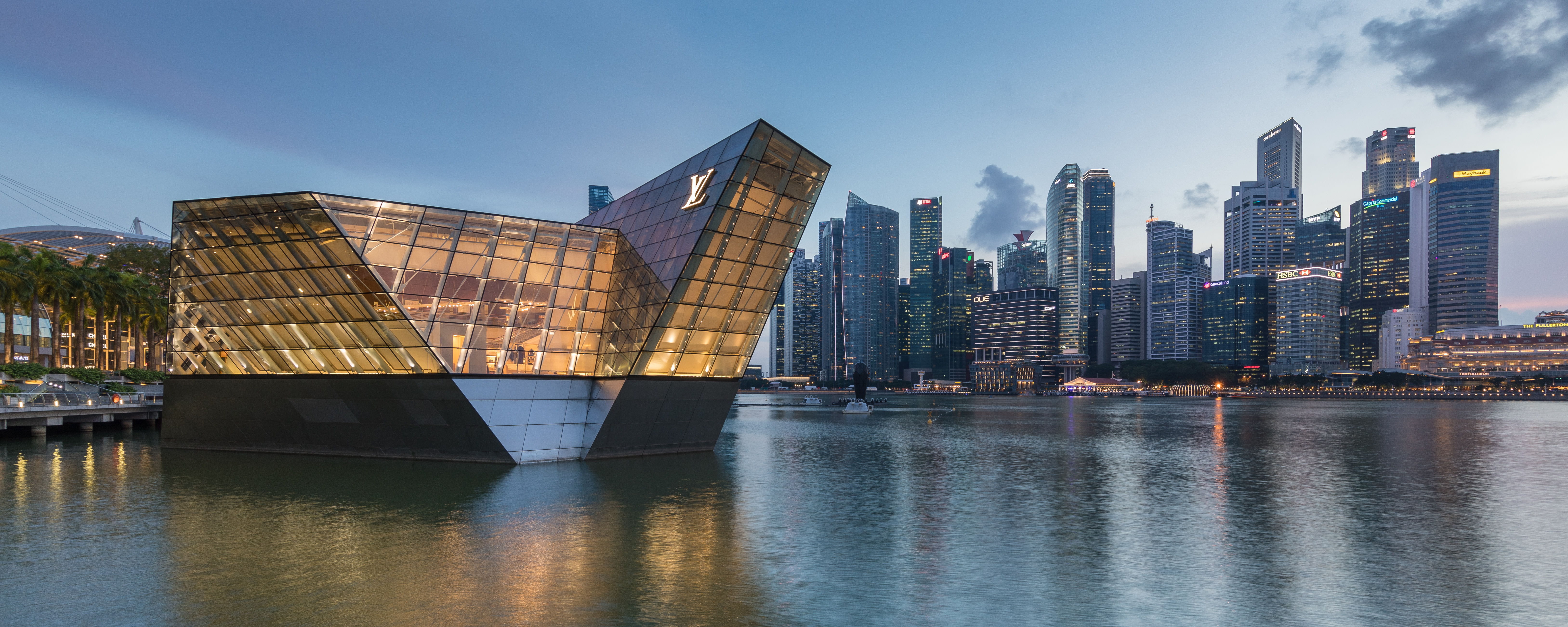 Illuminated polyhedral building Louis Vuitton over the water at Marina Bay in the evening, with skyscrapers of the Central Business District in the background, Singapore